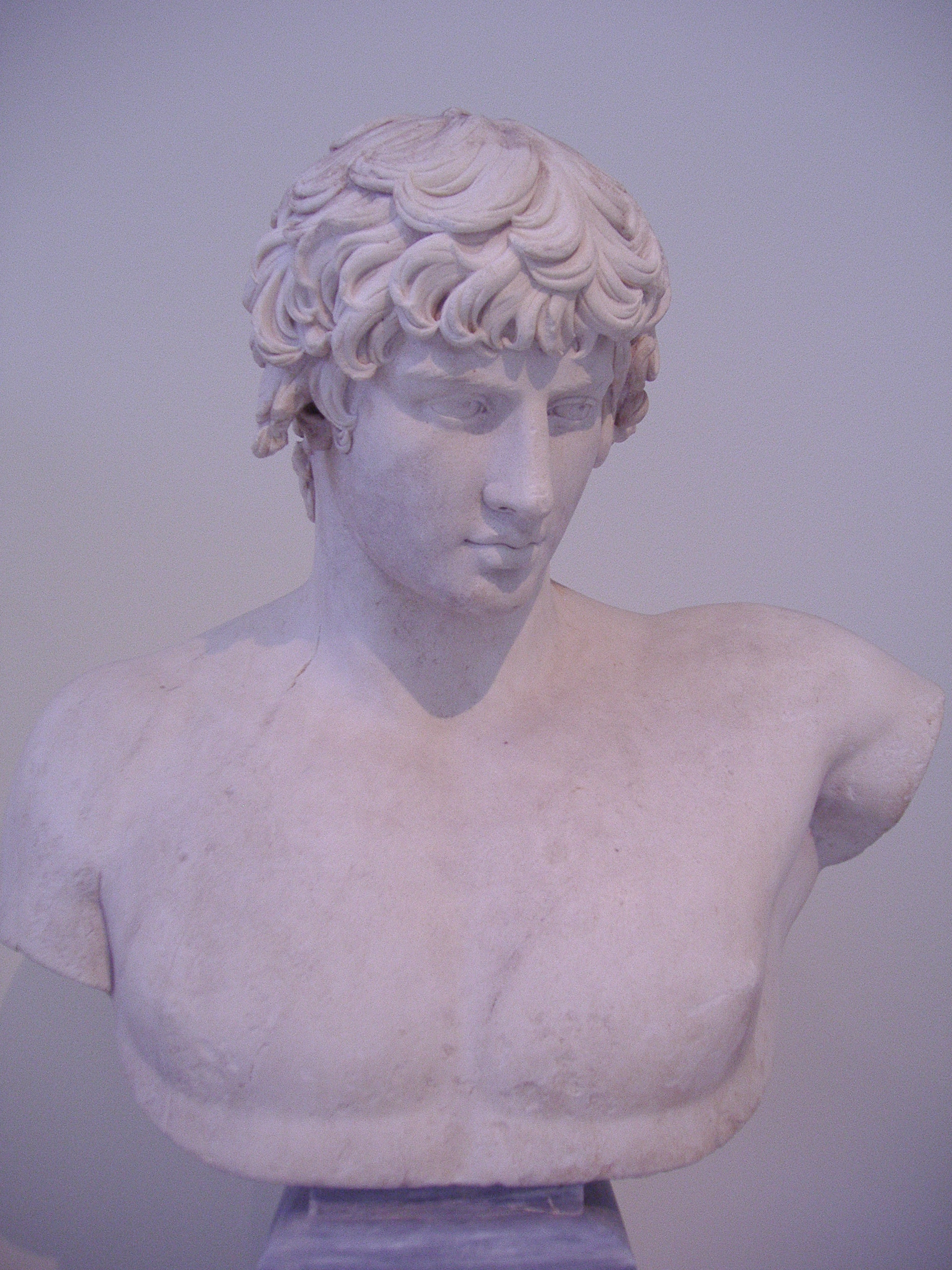 Portrait bust of Antinous, National Archaeological Museum Athens AD 130-138 Thasian marble, found at Patras